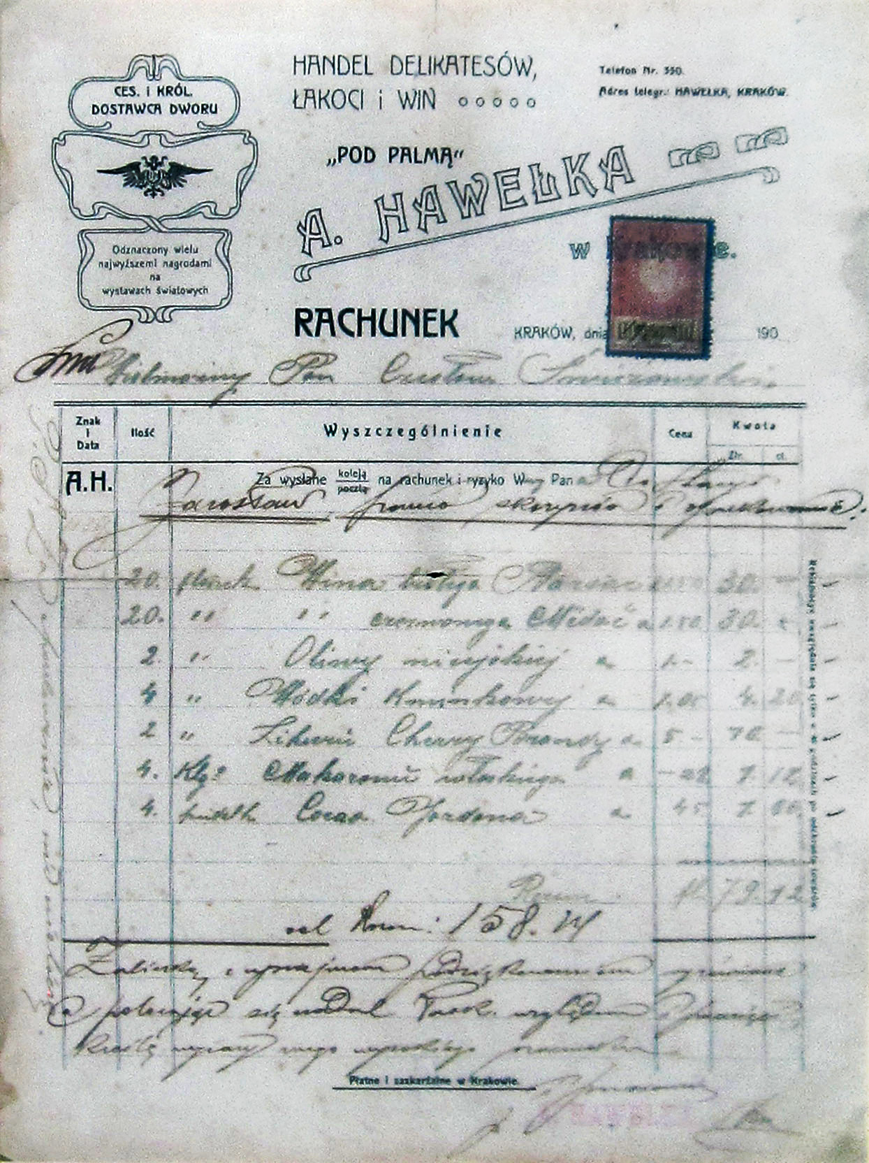 An old invoice of Antoni Hawełka in Krakow.